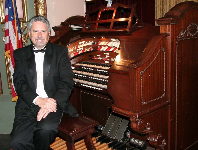 Silent film organist Dennis James, at the Wurlitzer theatre organ in the Coleman Theater — a historic movie palace in Miami, Oklahoma. Credits I took this is photograph on September 16, 2007, and am releasing into Public Domain. Caption quoted from en.wikipedia : "Dennis James at the keyboard of the Mighty Wurlitzer at the Coleman Theater in Miami, Oklahoma in September 2007, where he played the score for Clara Bow's 1927 film It"